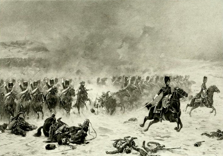 Battle of Preussisch Eylau - Charge of the Grenadiers-à-Cheval of the Imperial Guard